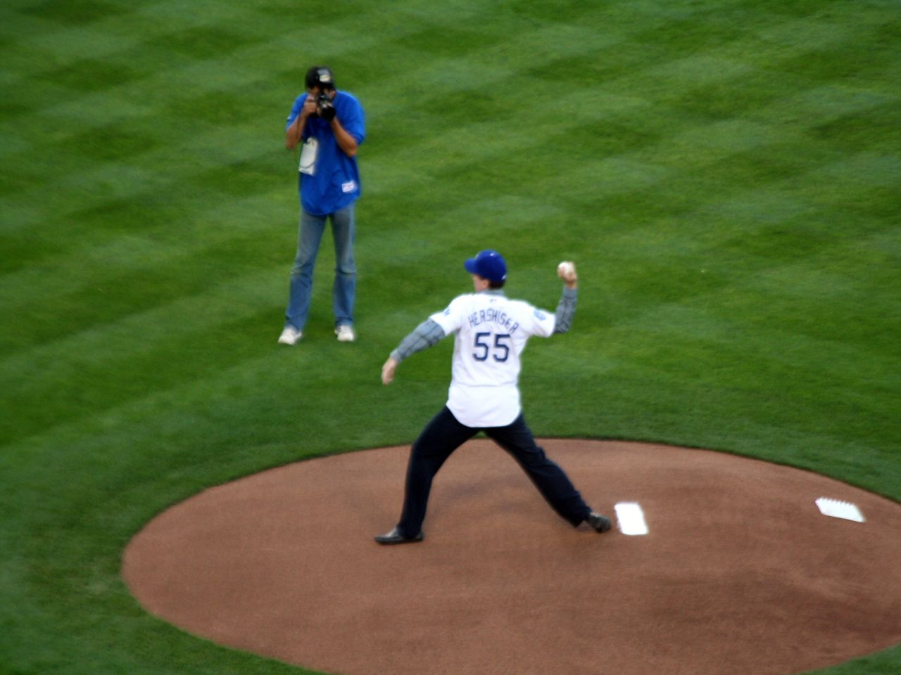 Orel Hershiser